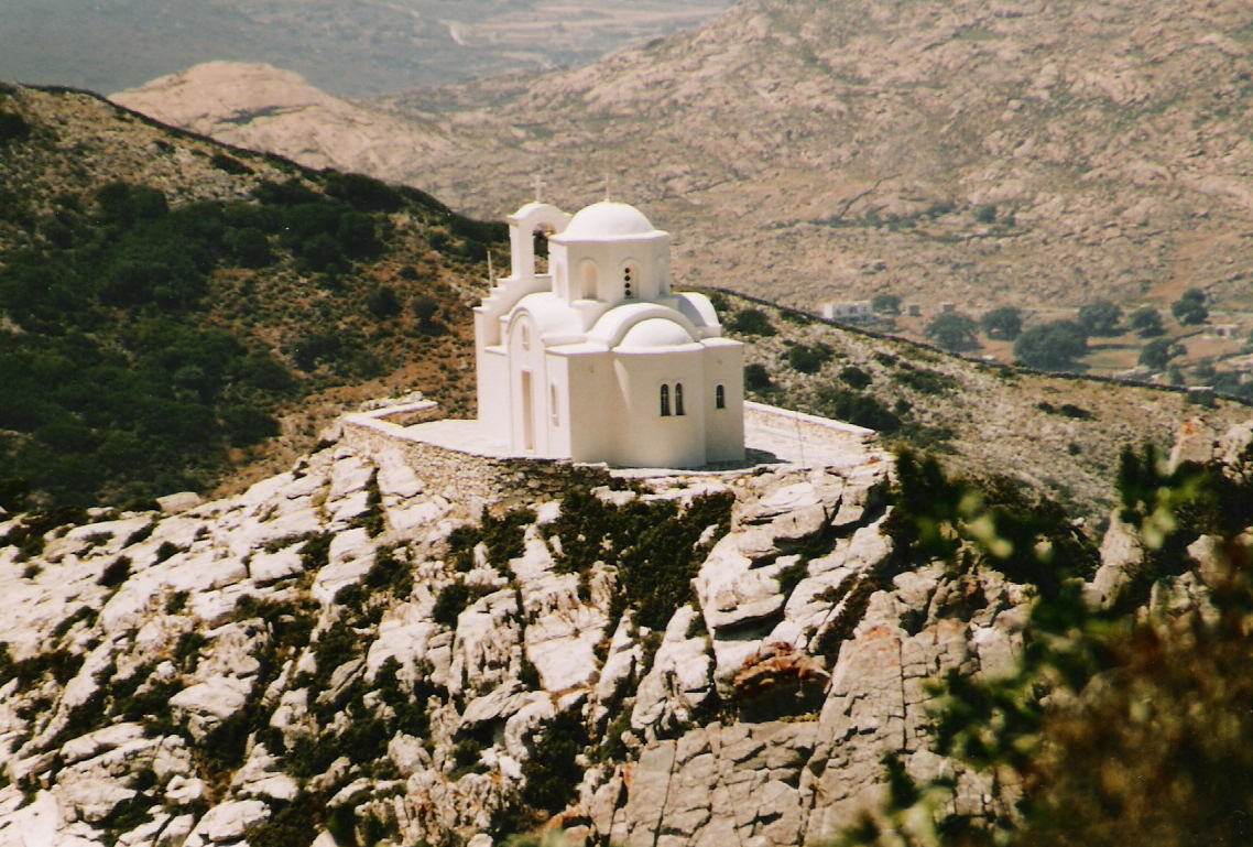 Own Photo; Naxos, Greece, May 2004 taken by ERWEH